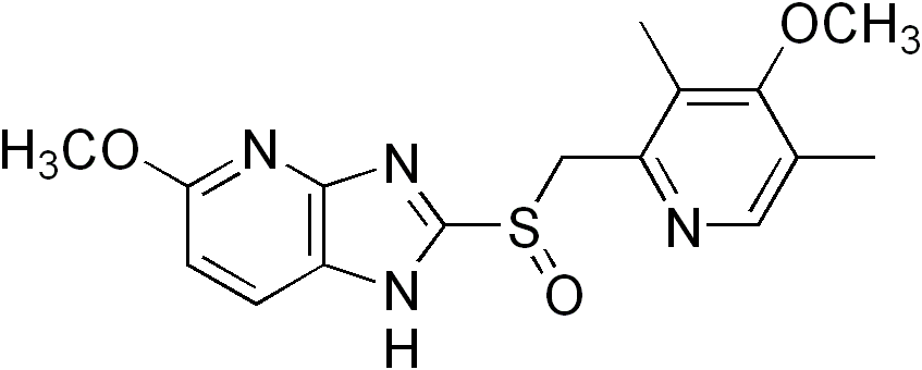 chemical structure of tenatoprazole